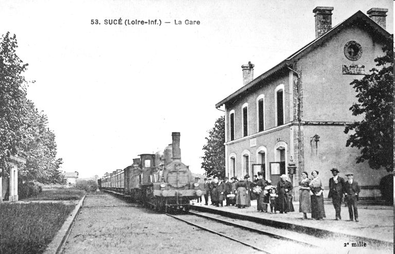 Steam locomotive at Sucé station.